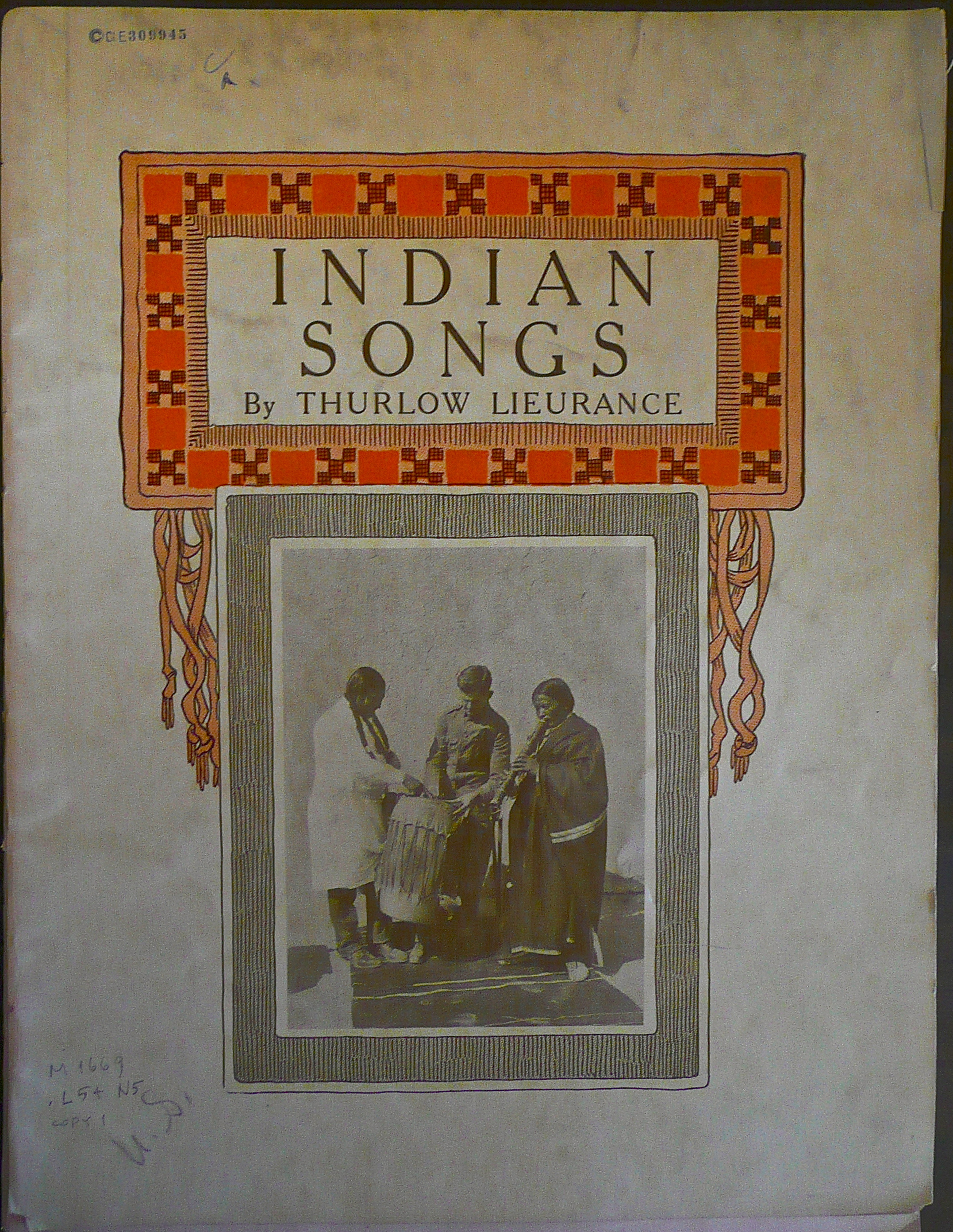 Indian Songs by Thurlow Lieurance - Sheet music graphic. Published either in 1910 or 1921.